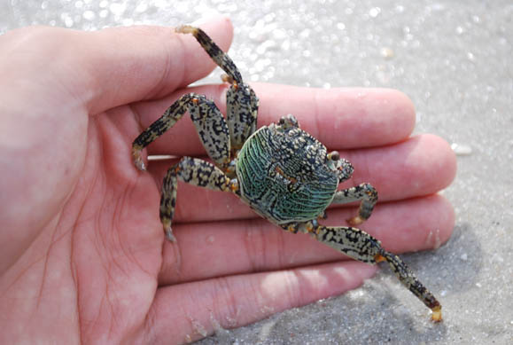 This picture was taken at Cenang Island, Langkawi. A five-legged crab crossing over my hand.